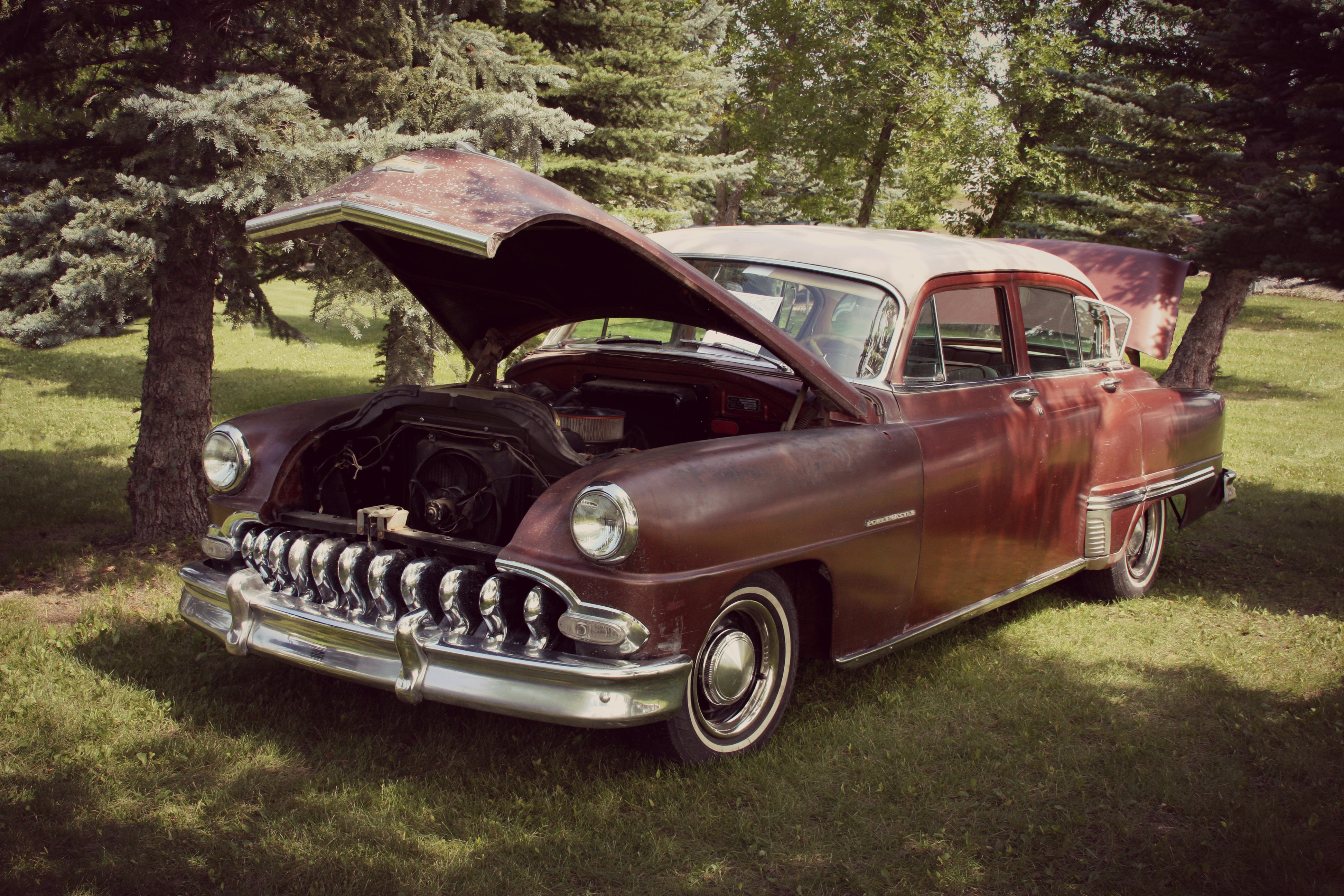 A lovely 1953 Desoto Power Master sedan with a V8 engine.